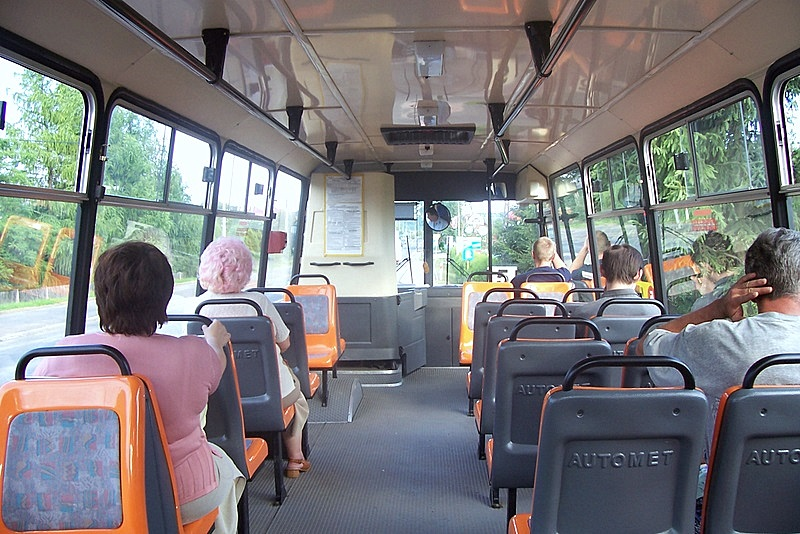 Autosan H9-35 bus interior in Sanok, Poland. MKS Sanok operator.